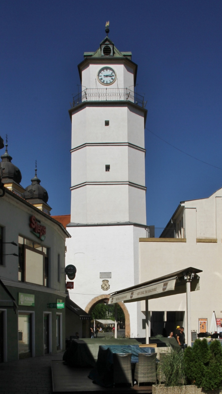 Dolná brána, Sládkovičova ulica, Trenčín, Slovakia, seen from the southwest